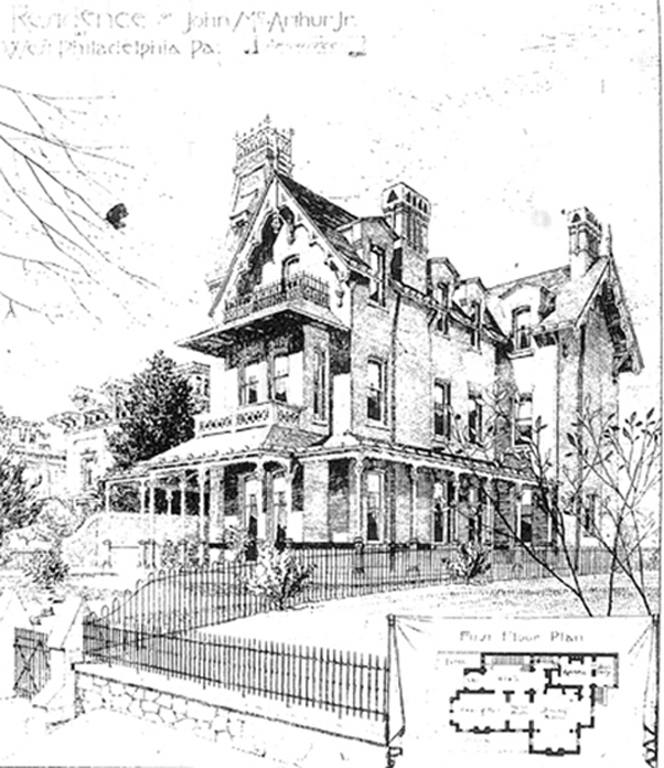 "Residence of John McArthur Jr. (4203 Walnut Street) West Philadelphia, Pa."